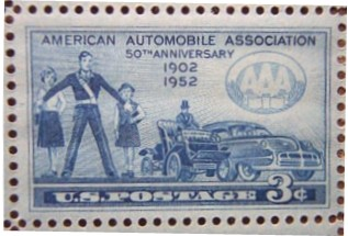 The stamp issued on March 4, 1952, in Chicago, Illinois, commemorated the 50th anniversary of the American Automobile Association (AAA) and promoted the AAA's Safety and Accident Prevention Program, showing a school safety patrol member in addition to conceptual representations of 1902 and 1952 automobiles, and the AAA logo.